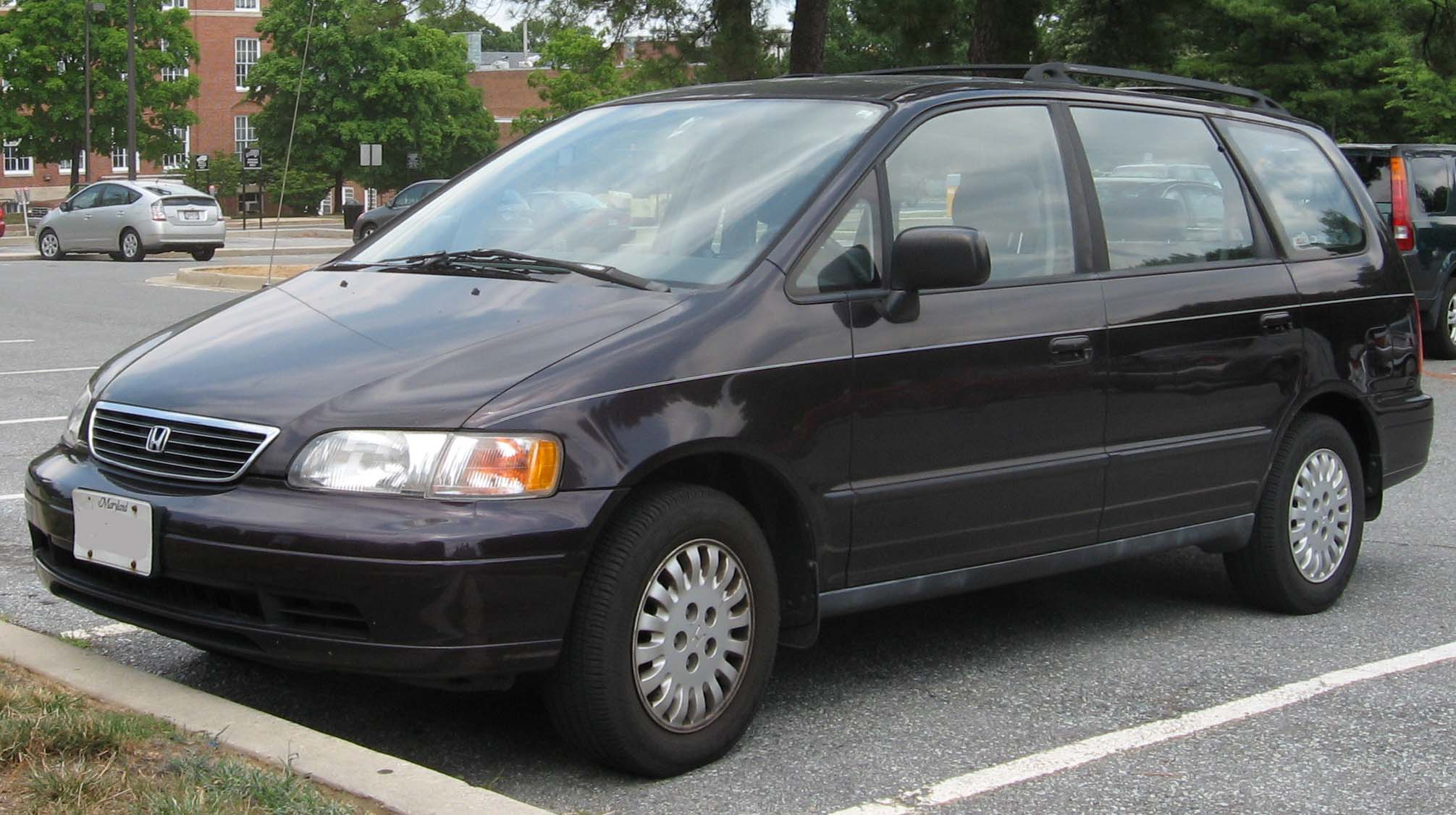 Honda Odyssey photographed in College Park, Maryland, USA.